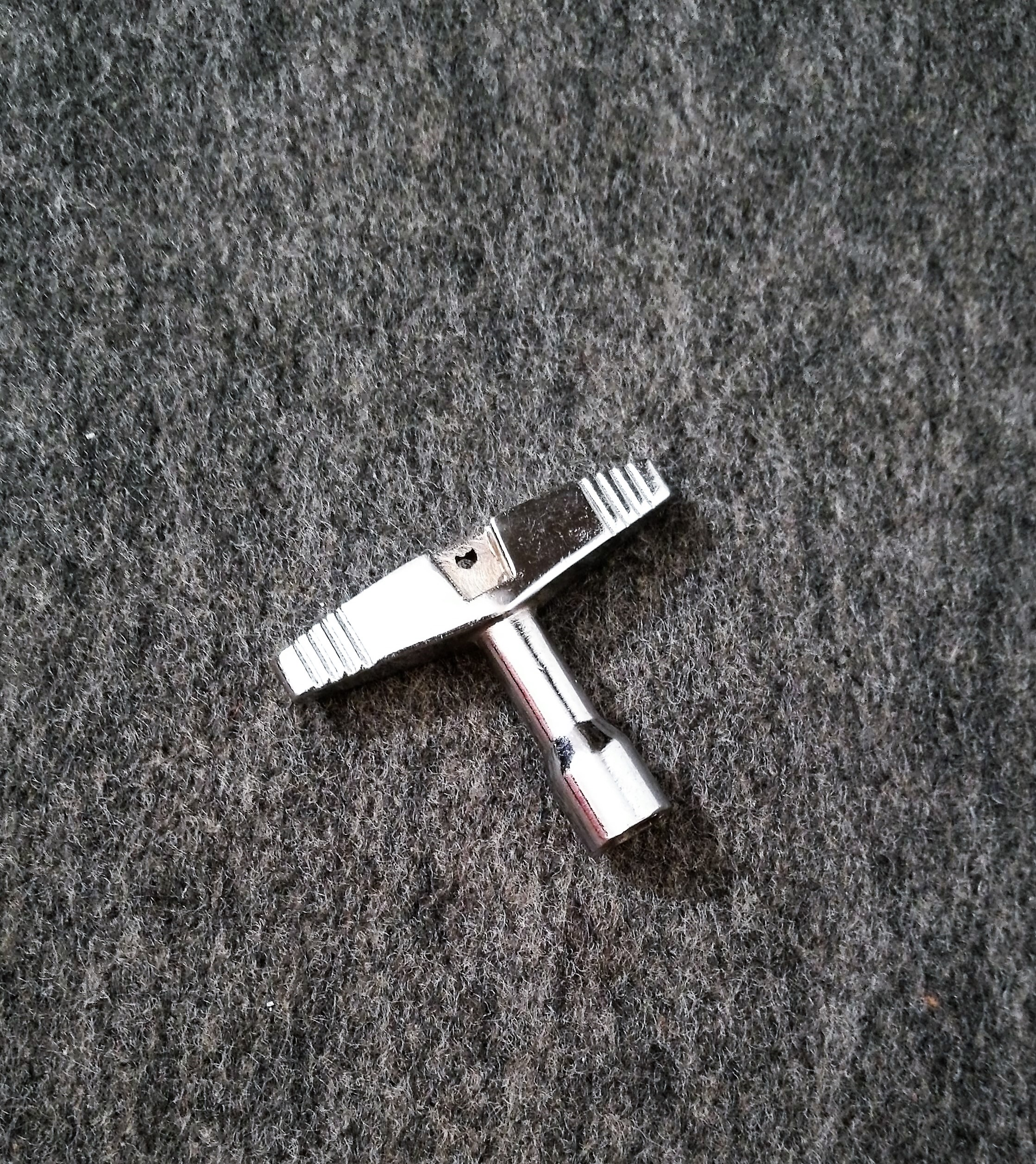 Tuning mechanisms for bongo and other drums